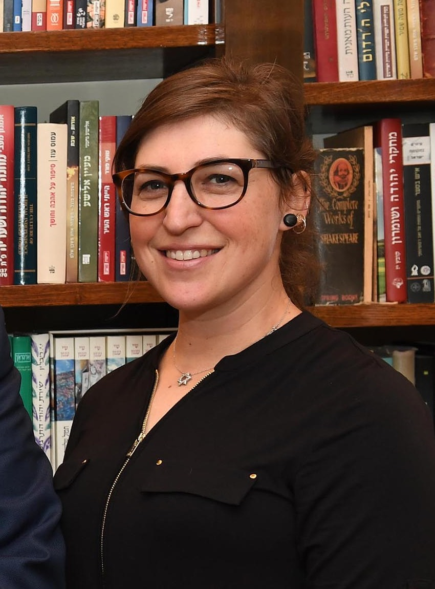 The actress Mayim Bialik visited Israel. Sunday, March 18, 2018. Photo Credit: Mark Neyman / GPO.